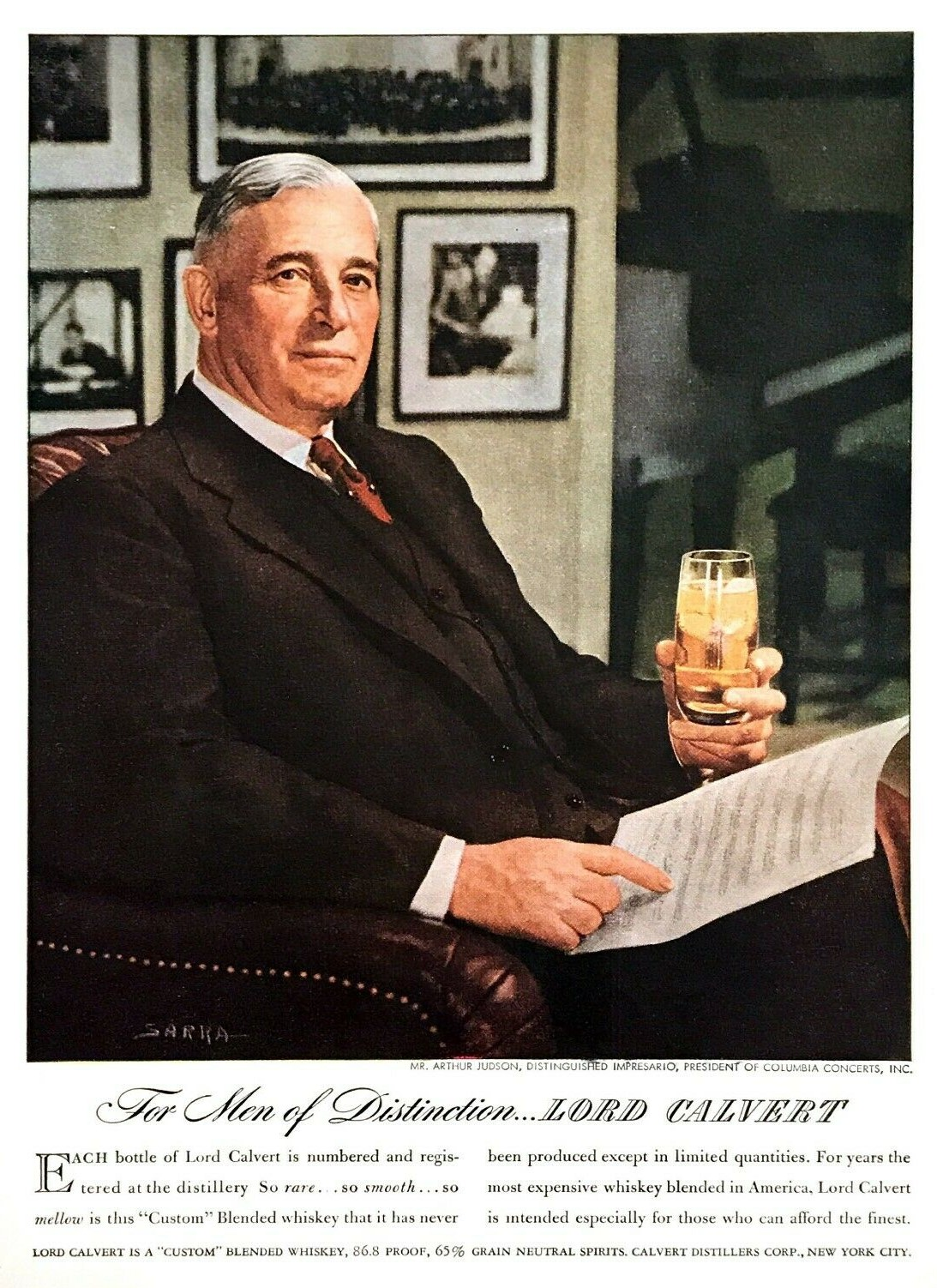 Lord Calvert Whiskey ad, featuring Arthur Judson, 1946